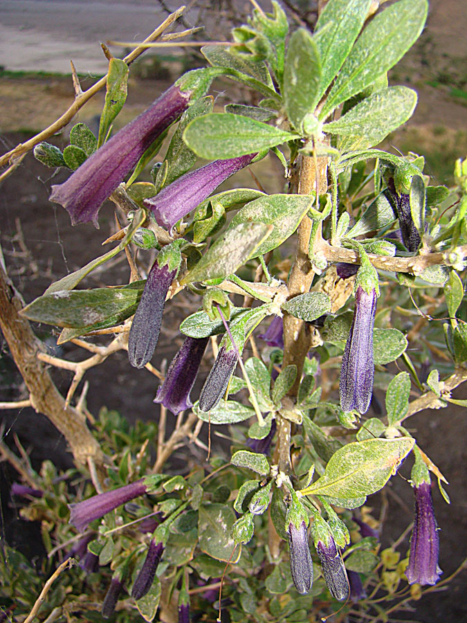 A thorny shrub from near the town of Chachas in southern Peru. In context at